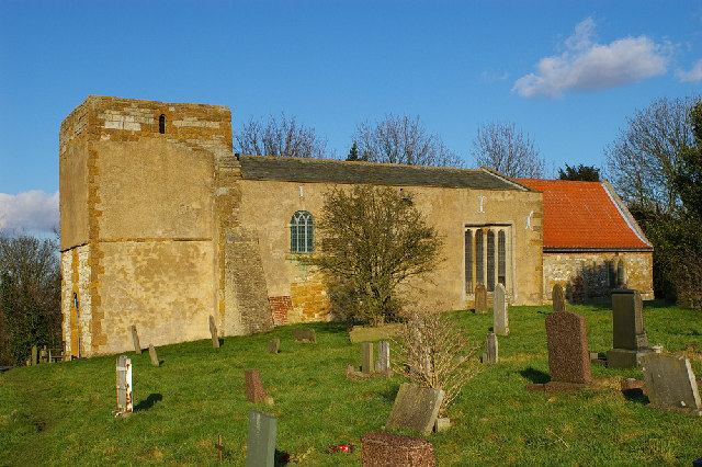 Church of St. Mary, Barnetby-Le-Wold. Church of St. Mary, Barnetby-Le-Wold, North Lincolnshire. This church was declared redundant in 1972. The parish church is now St. Barnabas which is better situated in relation to the village. The burial ground at St. Mary's is however still in use. For a picture of the rare lead font from this church see 272430.